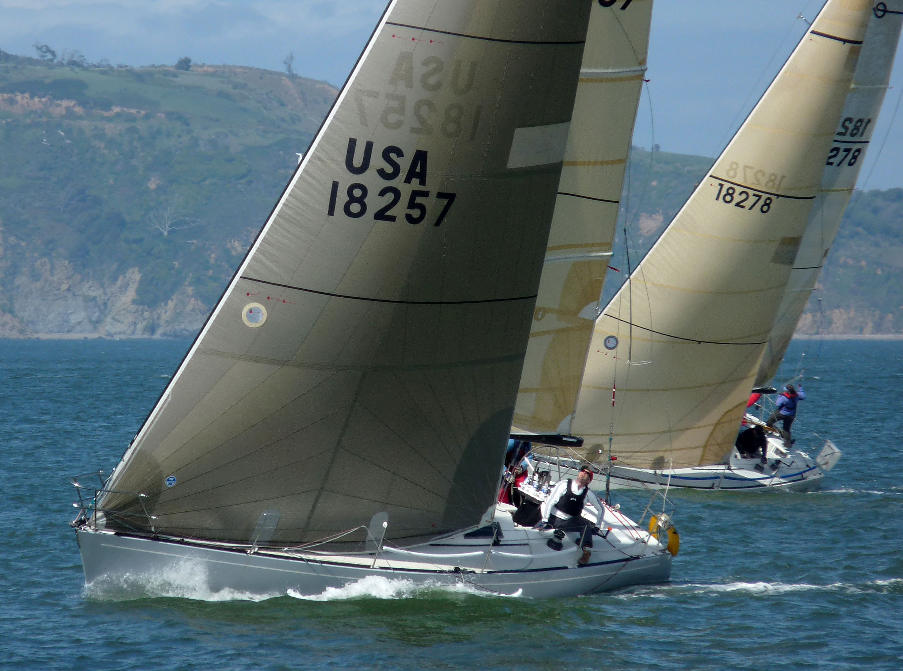 Express 37's pHat Jack and Stewball racing in the Spring One Design Regatta of the St Francis Yacht Club on San Francisco Bay, California, USA, Angel Island in the background.